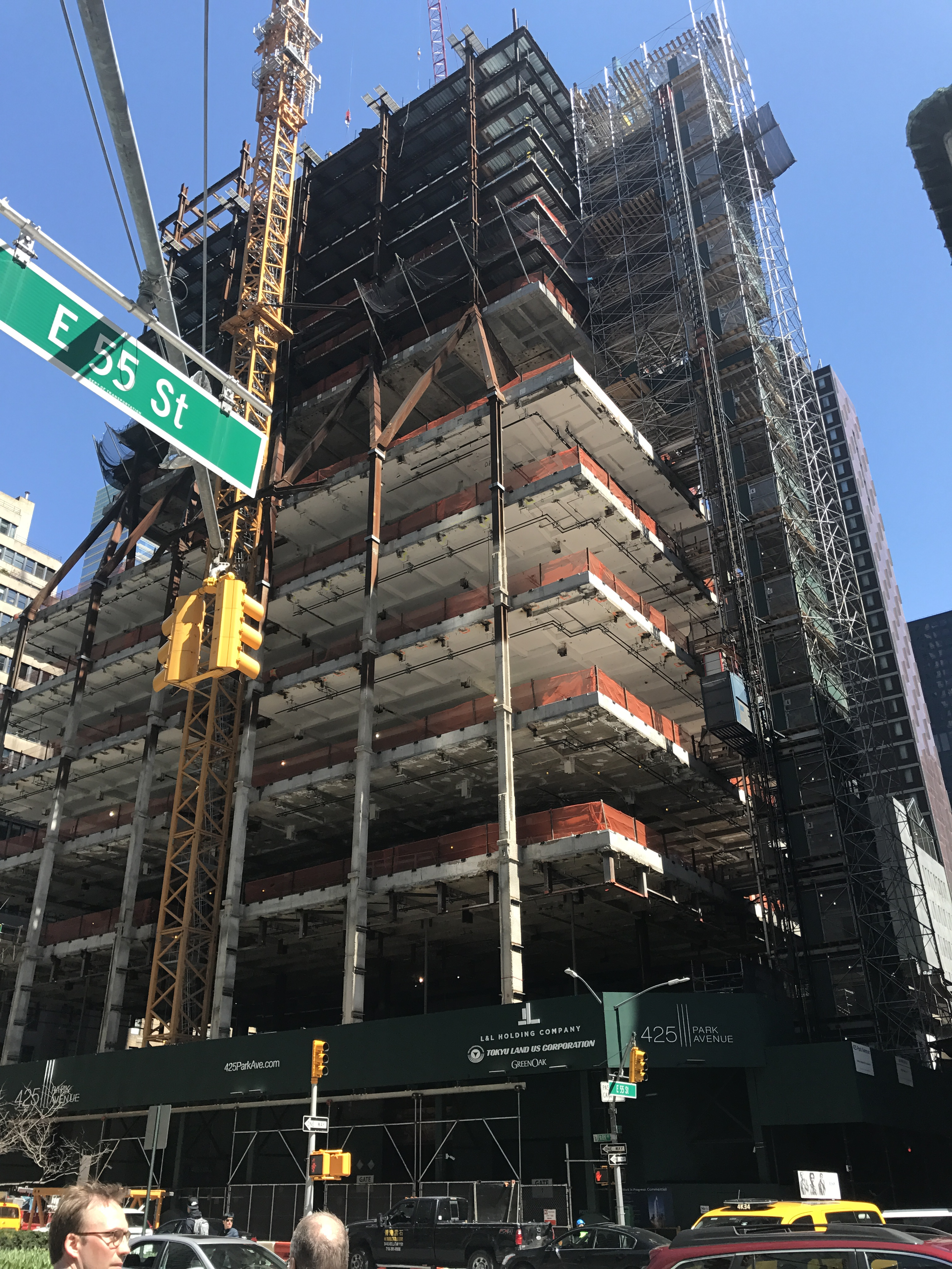 The base of the new 425 Park Avenue under construction after the floors were connected to the new jumbo columns and old columns cut off.